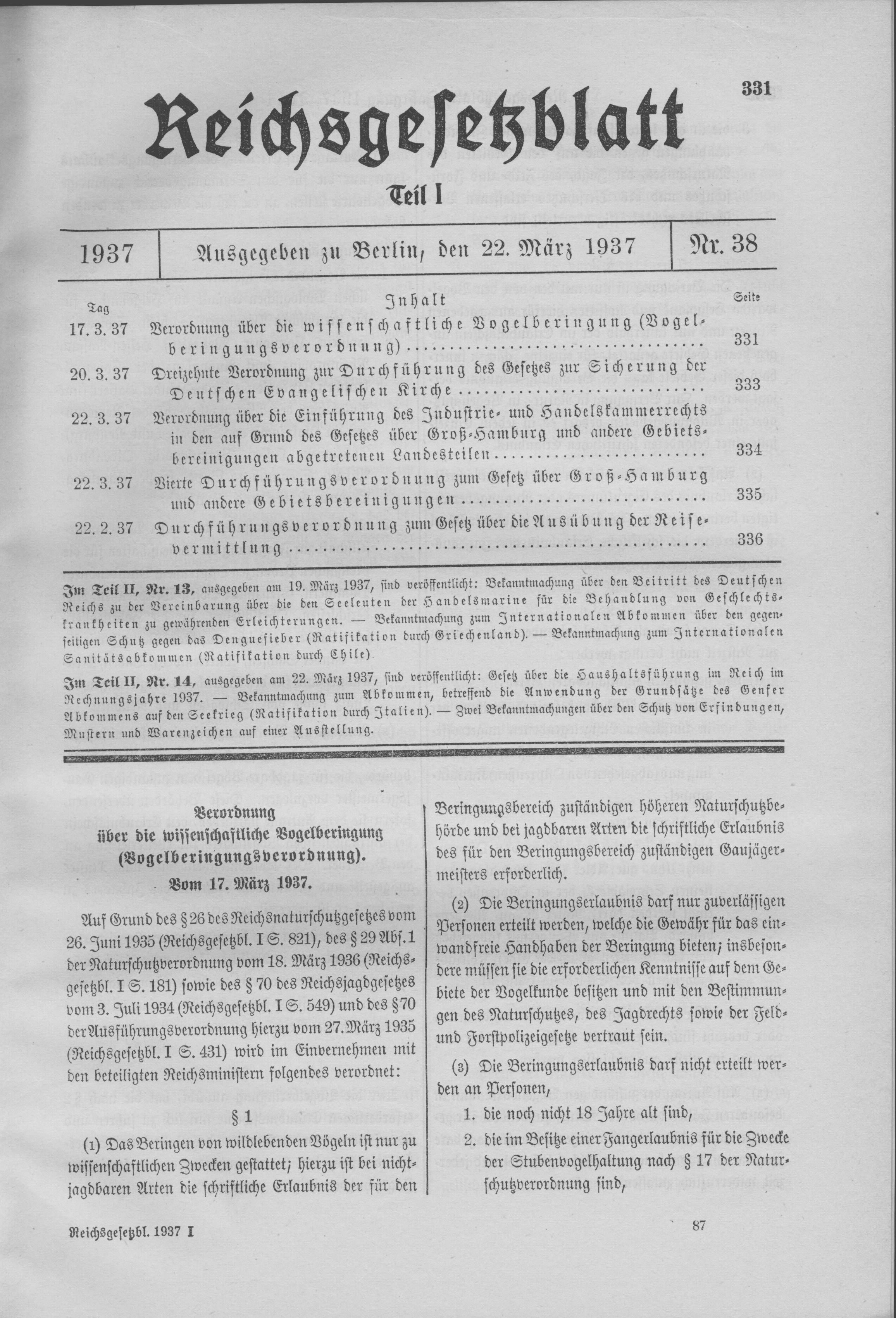 Scan from the Imperial Law Gazette of Germany, 1937, part 1